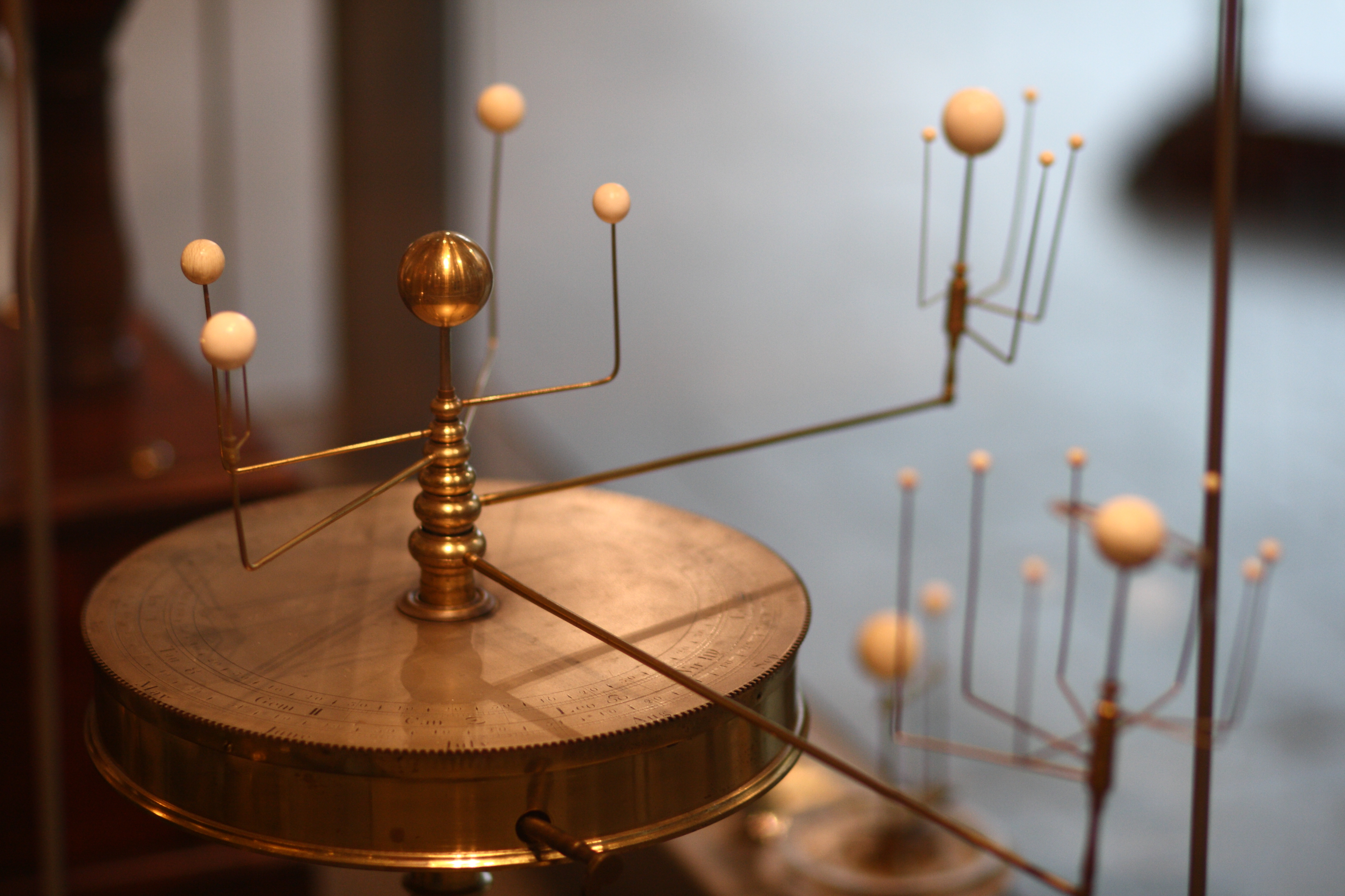 A mechanical planetarium made by Benjamin Martin in London in 1766, used by John Winthrop to teach astronomy at Harvard, on display at the Putnam Gallery in the Harvard Science Center